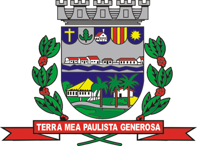 Coat of Arms of the town of Mococa (São Paulo, Brazil)